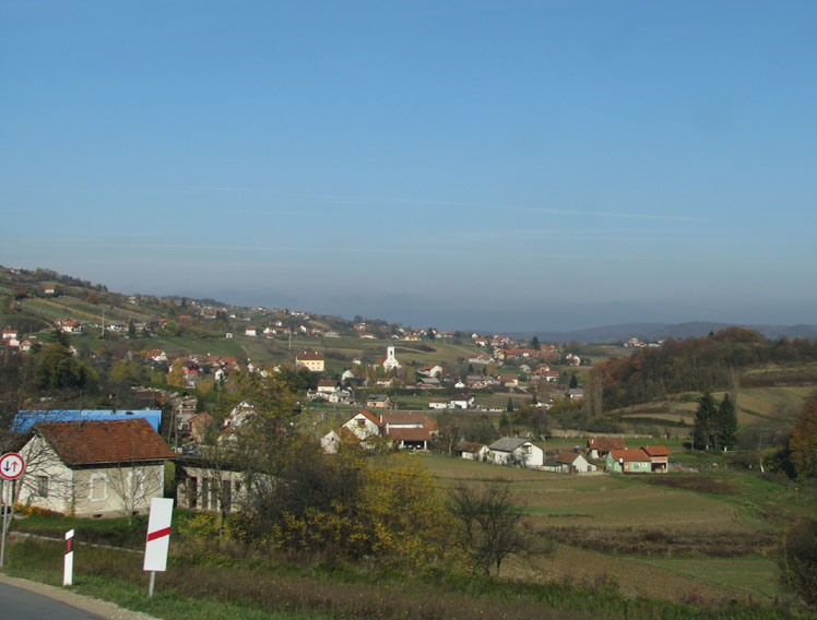 Madžarevo, Varaždin County, Croatia